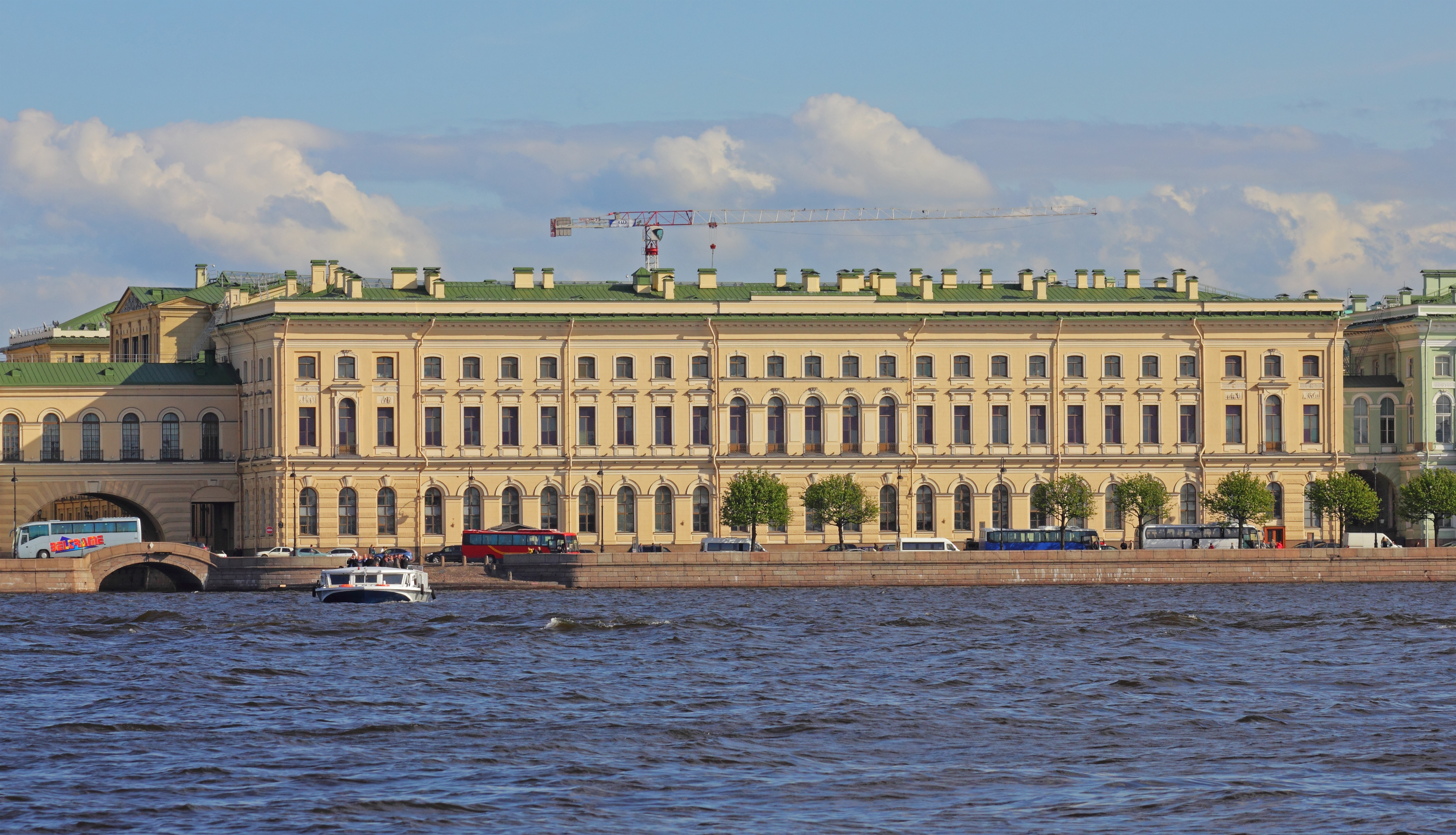 Saint Petersburg, Russia. Palace Embankment, house 34 (Old Hermitage).